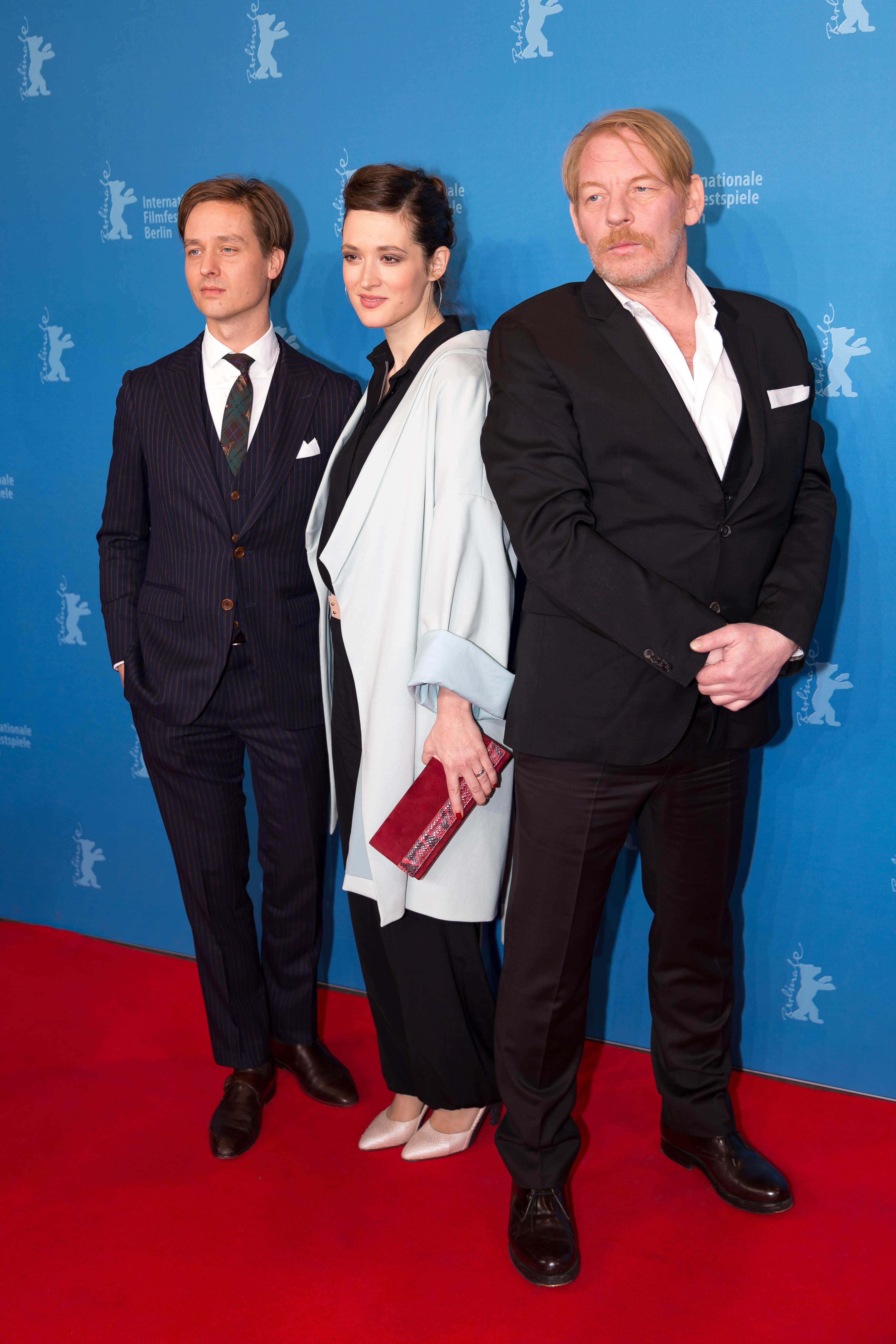 The actors Tom Schilling, Friederike Becht and Ben Becker presenting The Same Sky at the Berlinale 2017